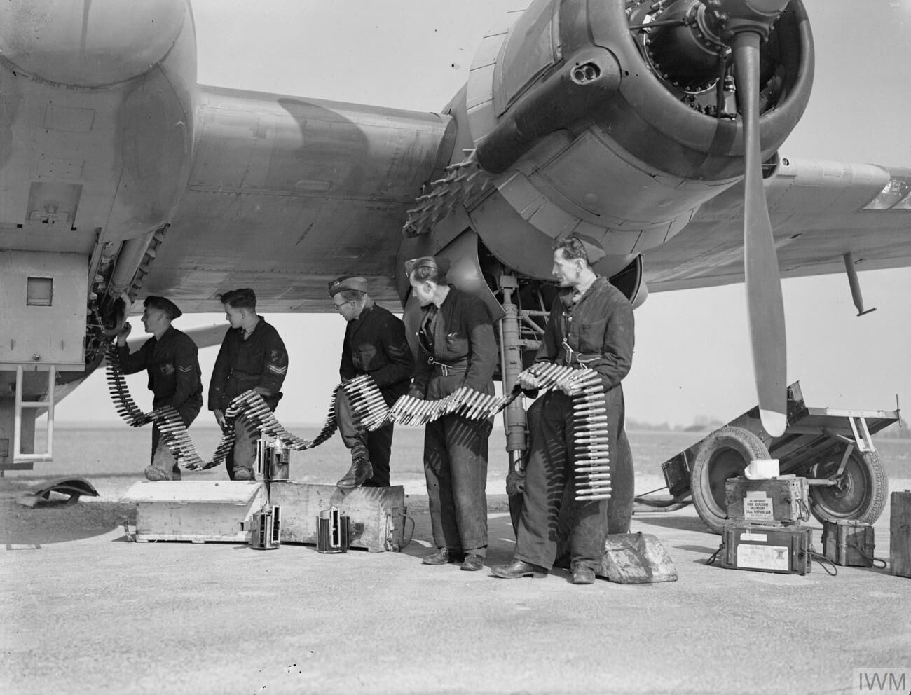 Royal Air Force Fighter Command, 1939-1945. RAF armourers loading belts of 20mm Hispano cannon shells into a Bristol Beaufighter NF Mark VI of No. 96 Squadron RAF at Honiley, Warwickshire.